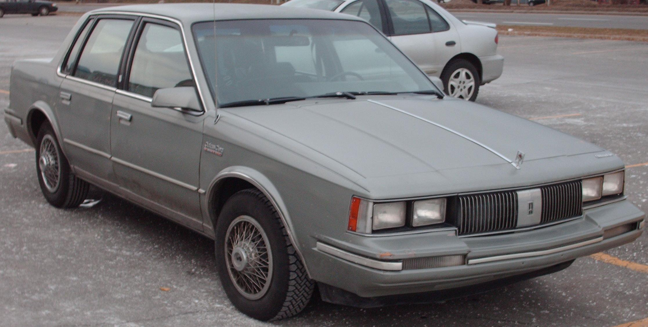 1982-1984 Oldsmobile Cutlass Ciera photographed in Montreal, Quebec, Canada.